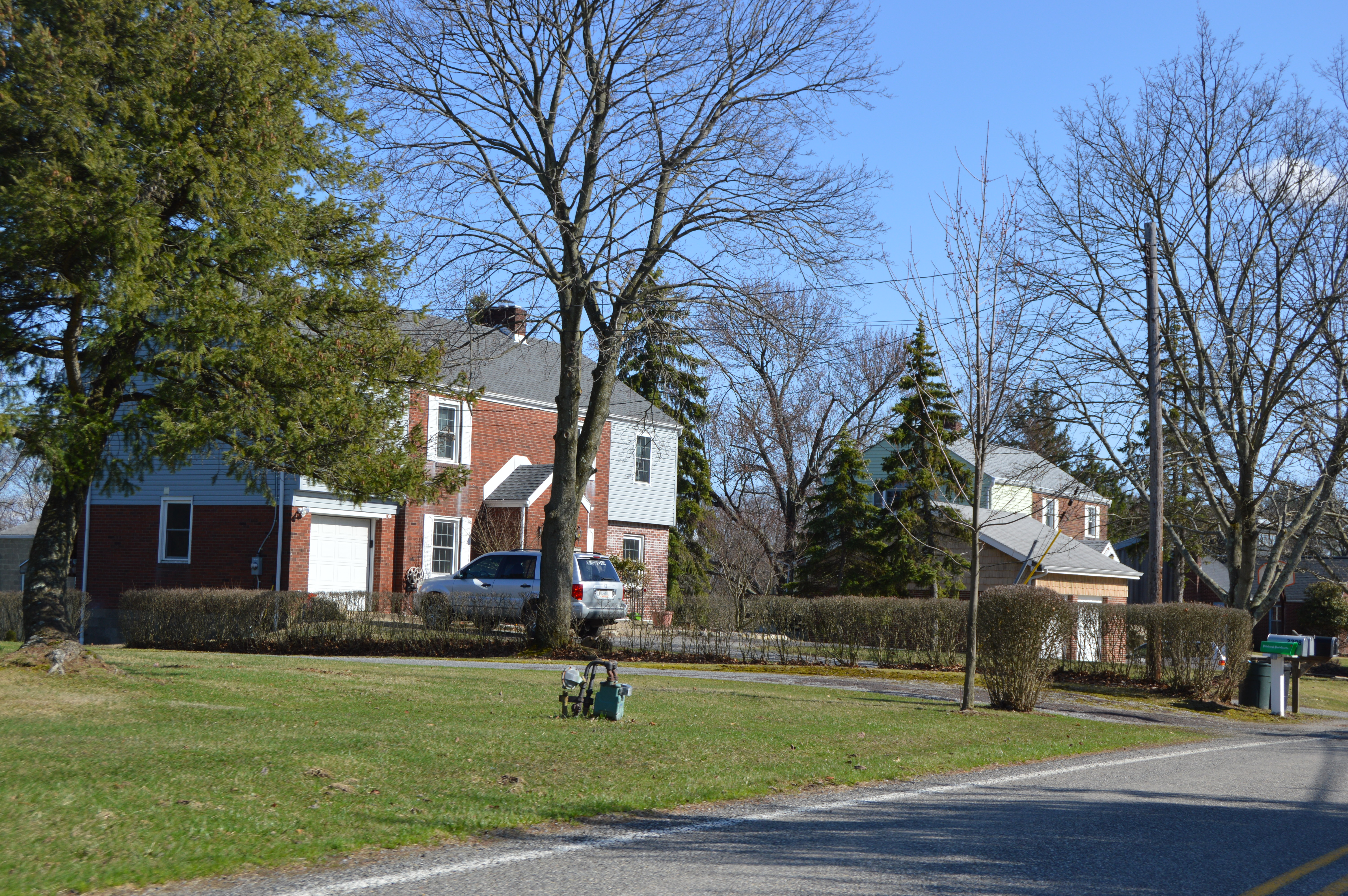 Houses on the eastern side of Henry Road south of the Pleuchel Road intersection in Sewickley Hills, Pennsylvania, United States.